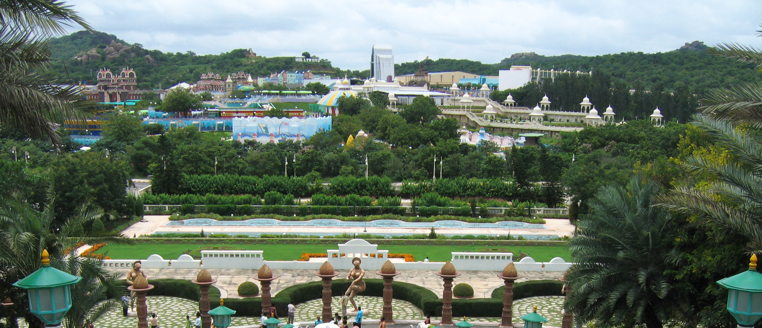 Ramoji Film City, Hyderabad - views from Ramoji Film City